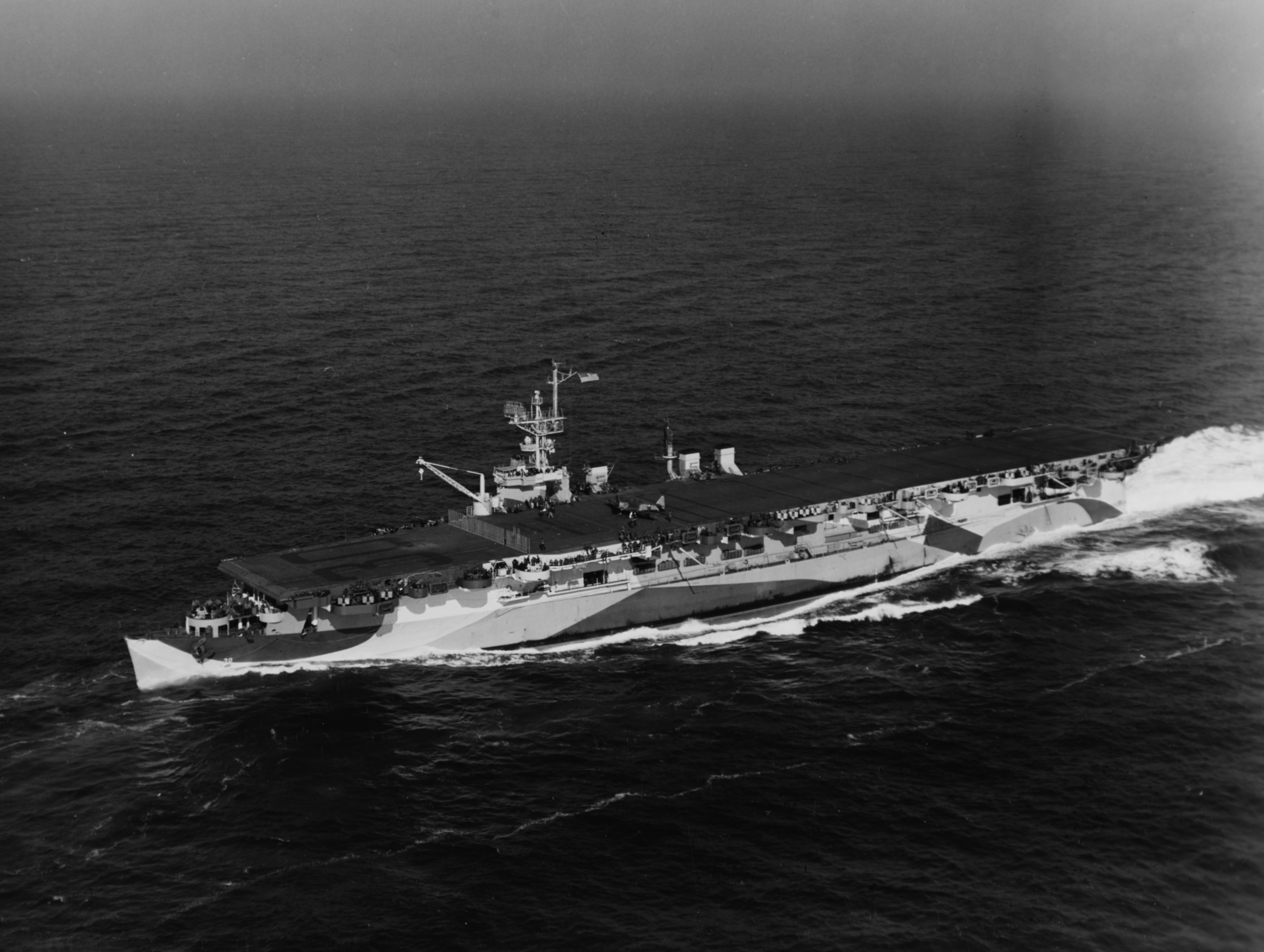 The U.S. Navy light aircraft carrier USS San Jacinto (CVL-30) underway off the U.S. East Coast on 23 January 1944, with a North American SNJ Texan training plane parked on her flight deck. The ship is painted in Camouflage Measure 33, Design 7A.